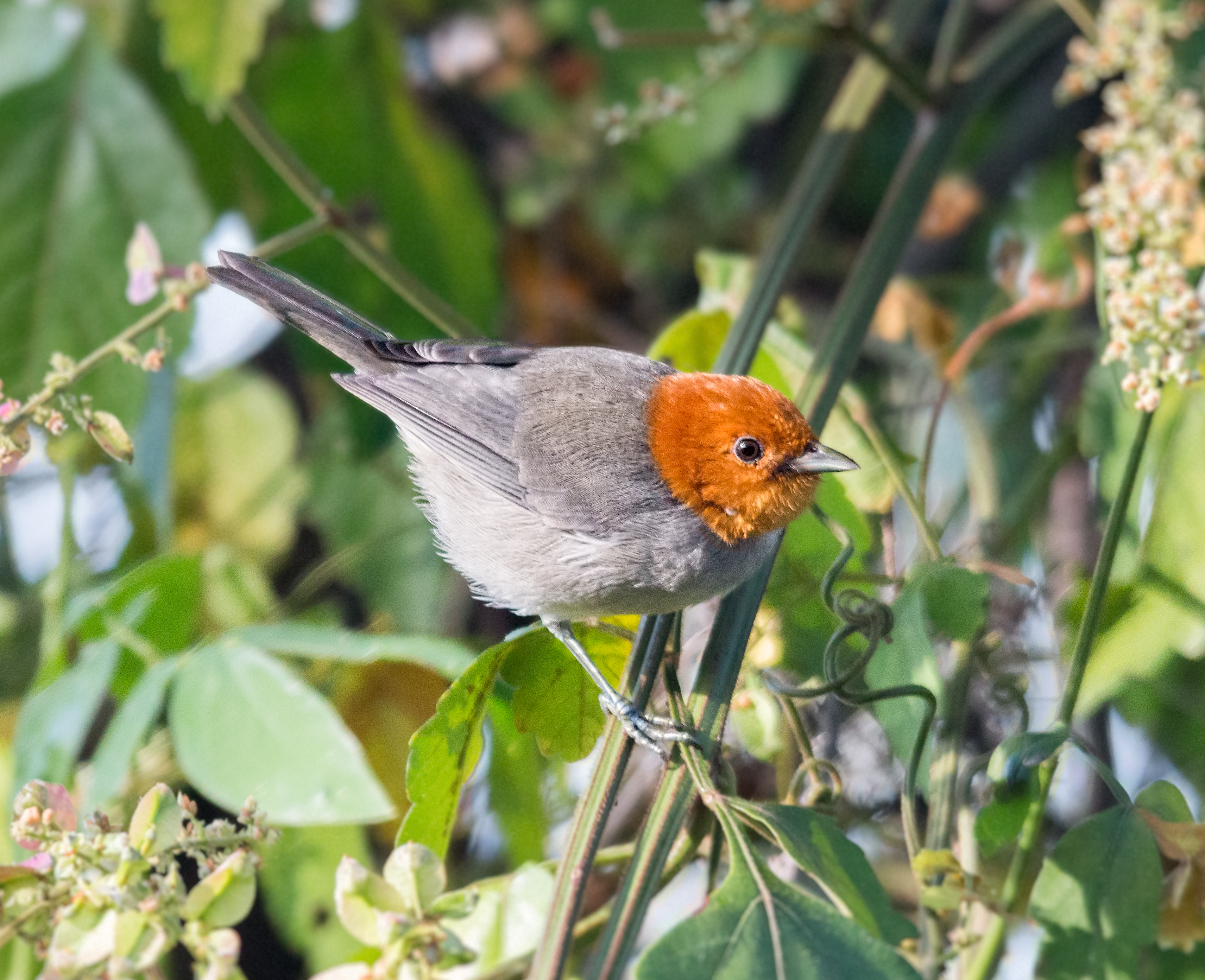 Fulvous-headed Tanager | Frutero Cabecileonado (Thlypopsis fulviceps fulviceps)